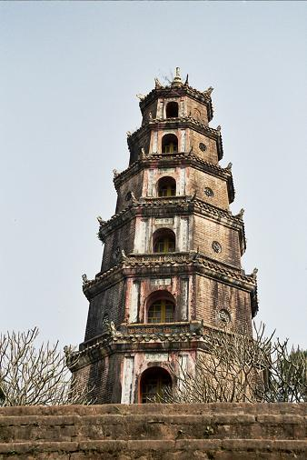 Thien Mu Pagoda in Hue, Vietnam.